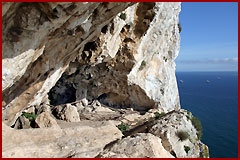 Martin's Cave entrance - Martin's Cave is a large cave in Gibraltar. It opens on the eastern cliffs of the Rock of Gibraltar